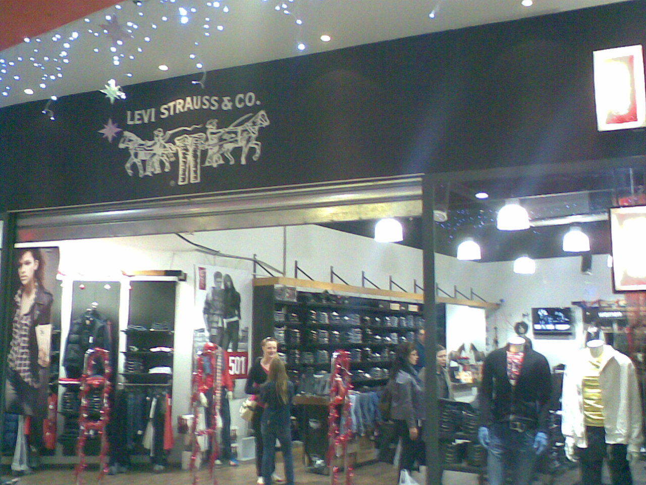 Levi's in Futurum, Ostrava.